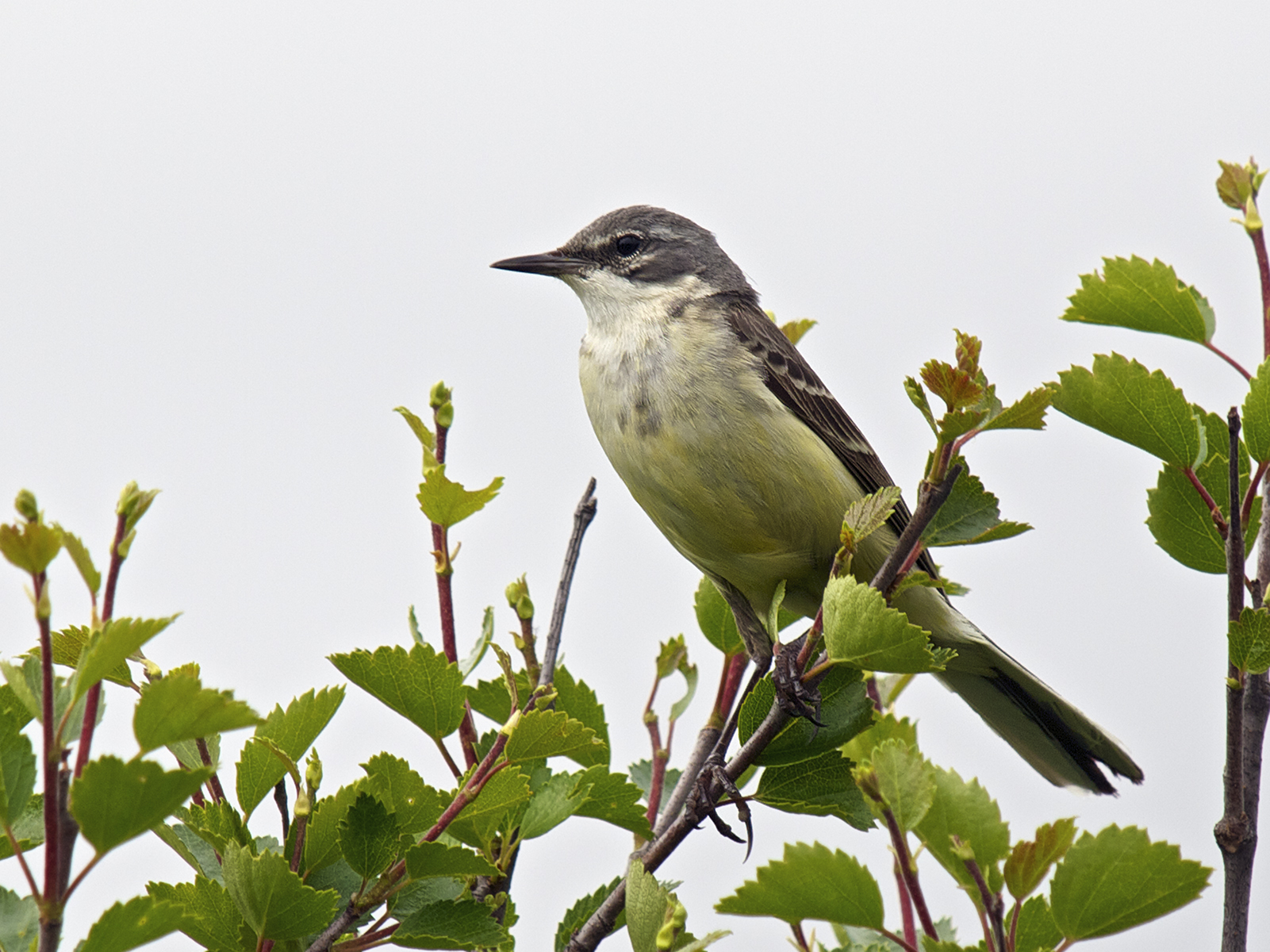 Female Western Yellow Wagtail (Dark-headed Wagtail, Motacilla flava thunbergi), Grimsdalen, Rondane National Park, Norway